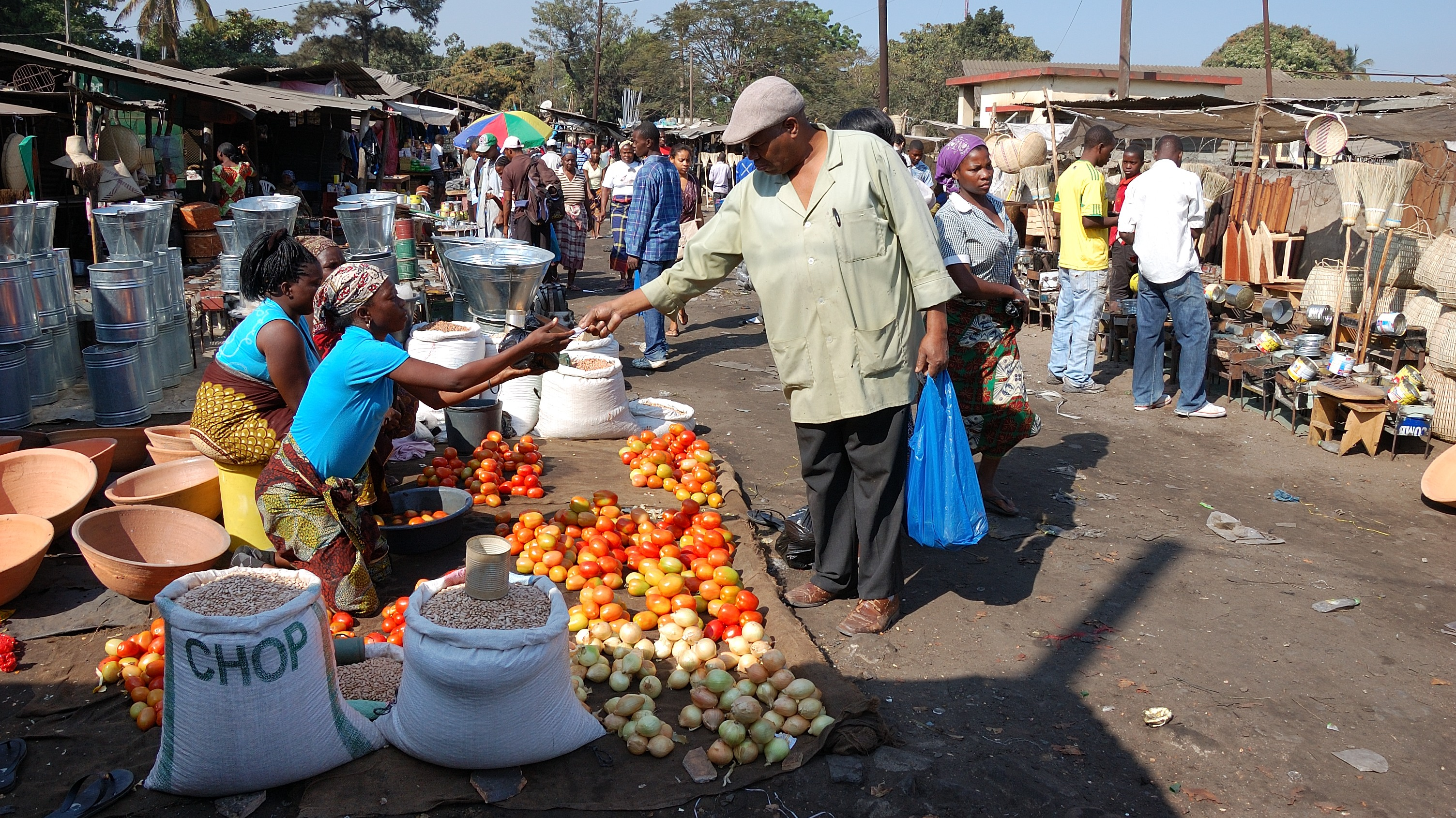 Xipamanine market in Maputo, Mozambique